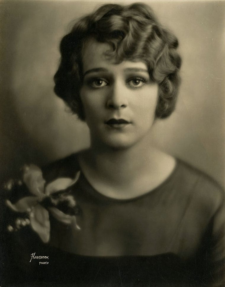 Portrait of American actress Marguerite De La Motte (1902–1950) by Fred Hartsook